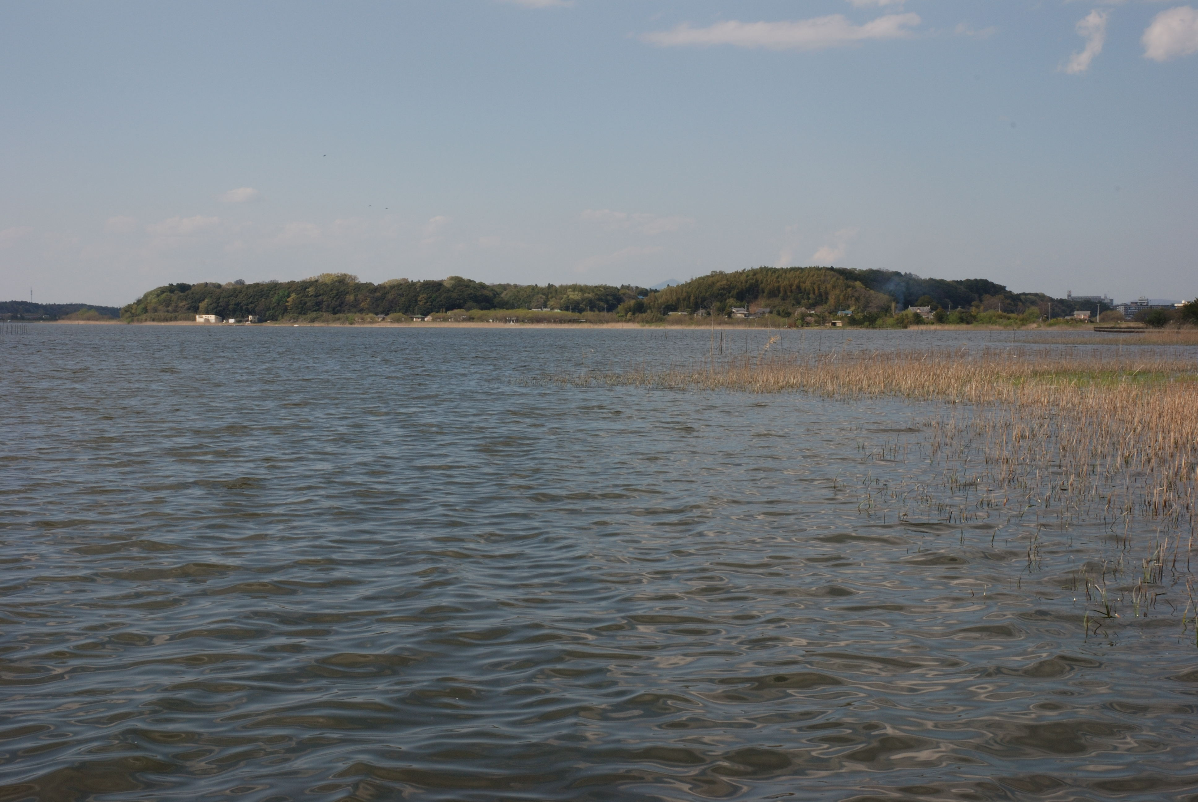 Ushiku castle